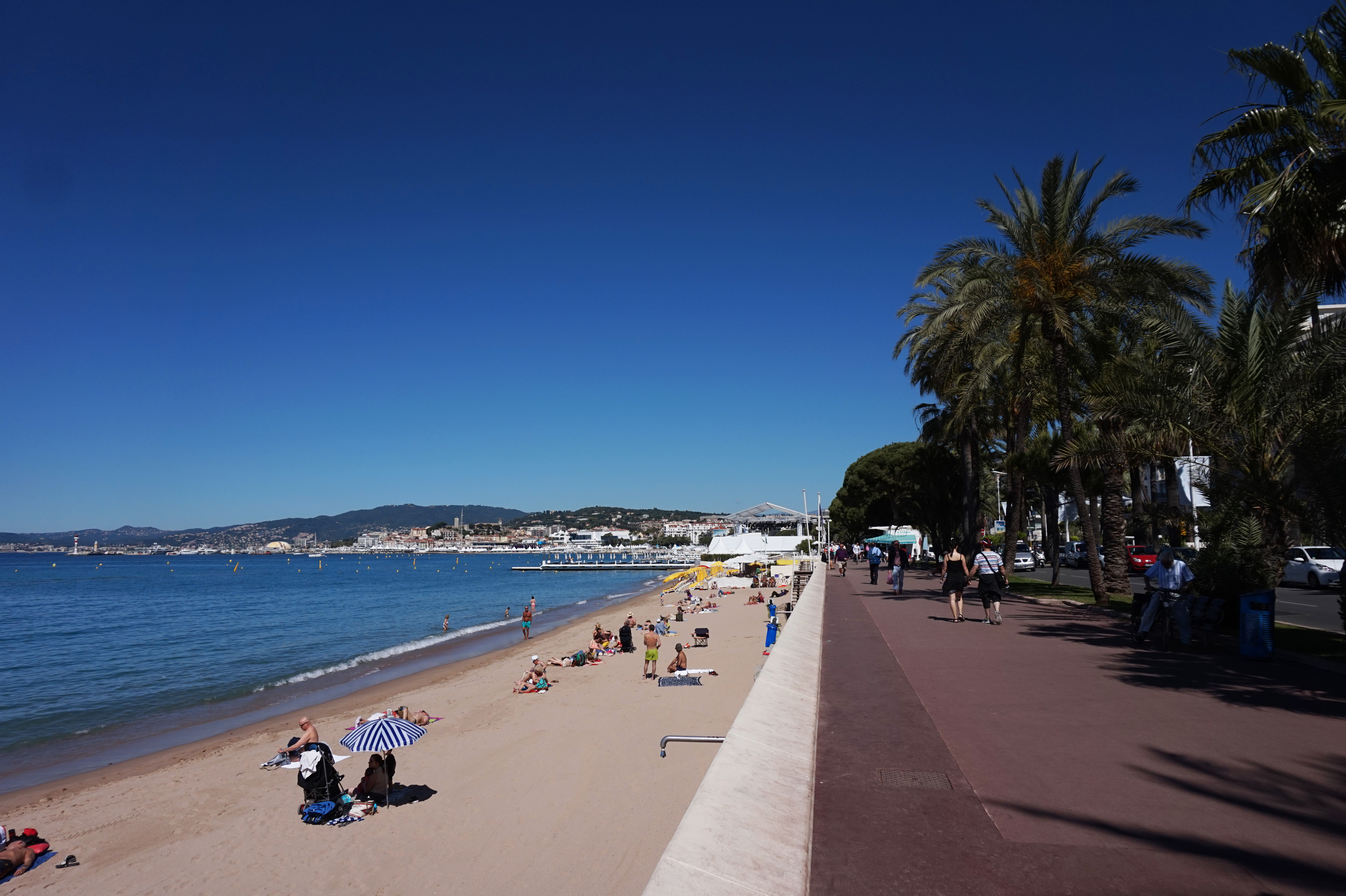 Beach and promenade in Cannes. This photograph was taken with a Sony Alpha a5000.